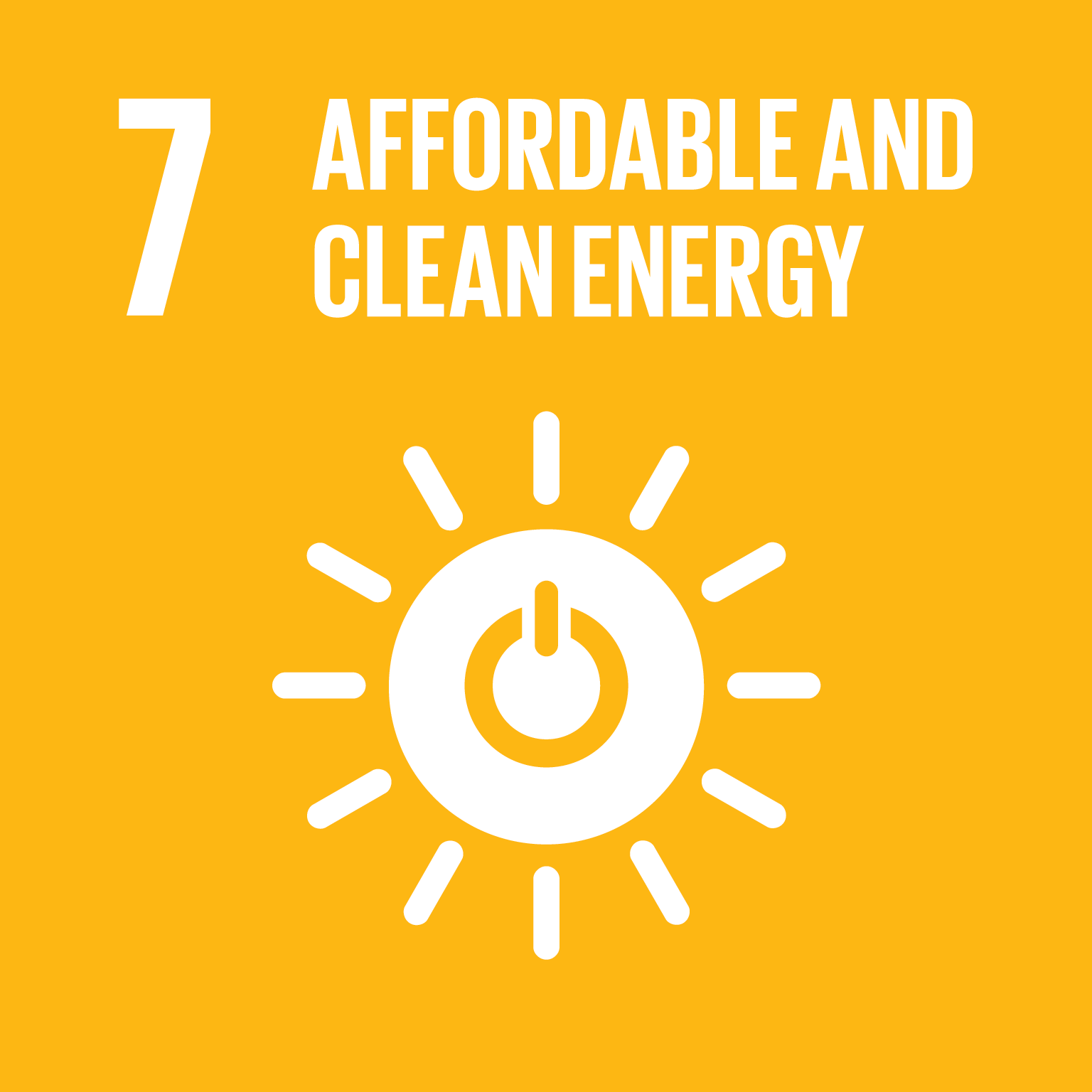 SDG7 Affordable and Clean EnergyRomână: Obiectivul de dezvoltare durabilă nr. 7: Energie regenerabilă și la prețuri accesibile (în engleză)